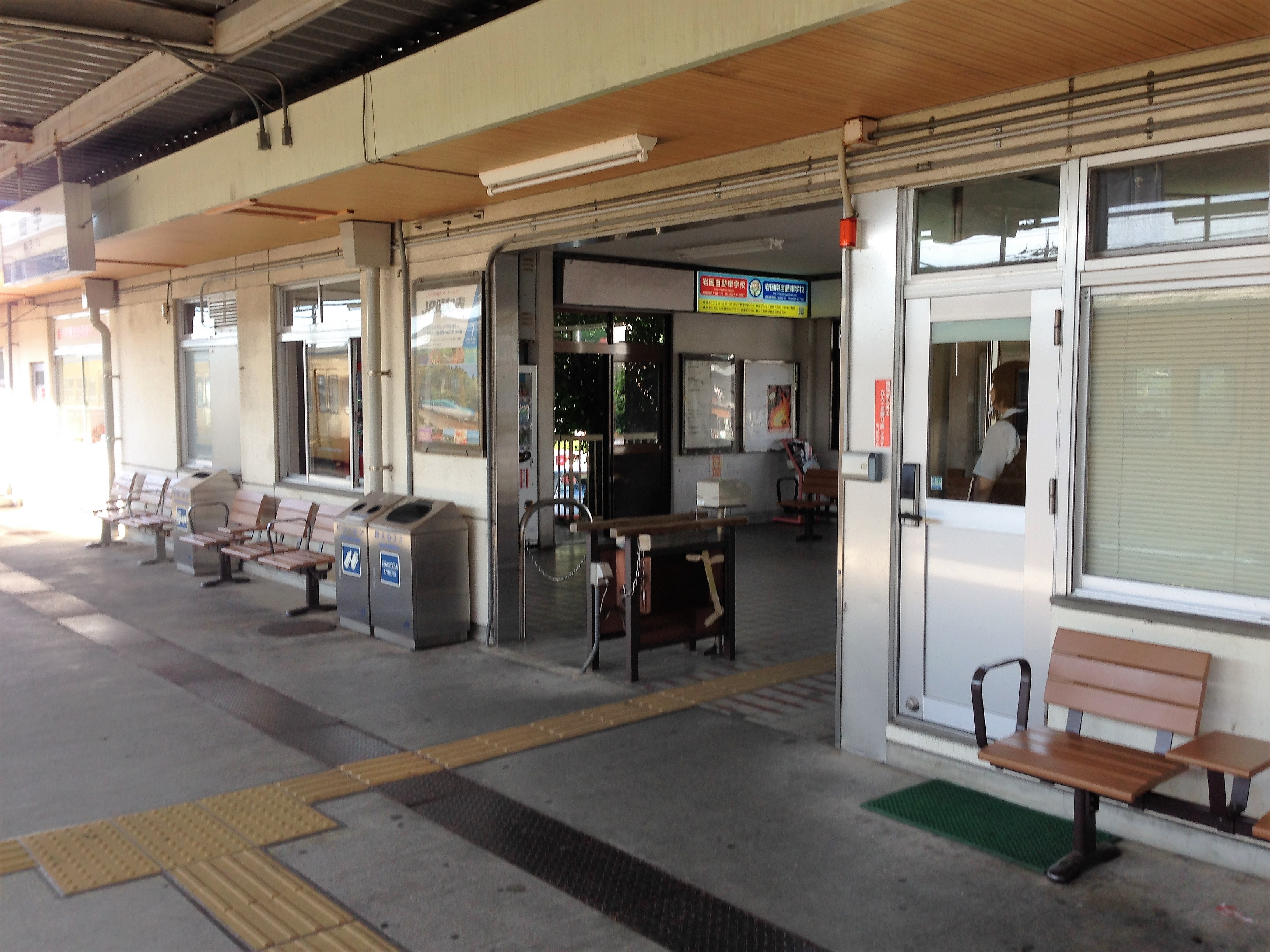 yuu-station. iwakuni-city. YAMAGUCHI, JAPAN